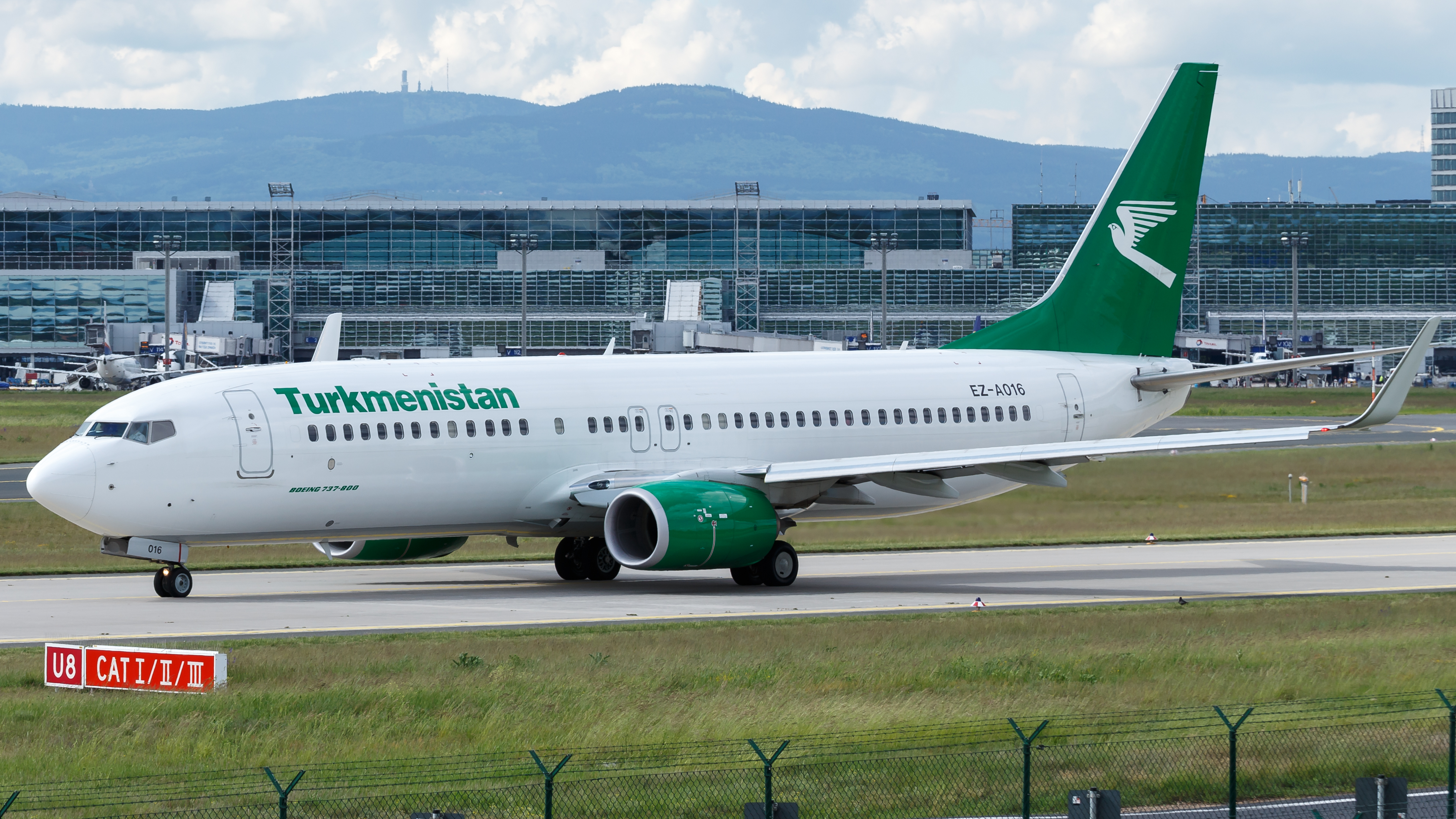 Turkmenistan Airlines Boeing 737-800 at Frankfurt Airport